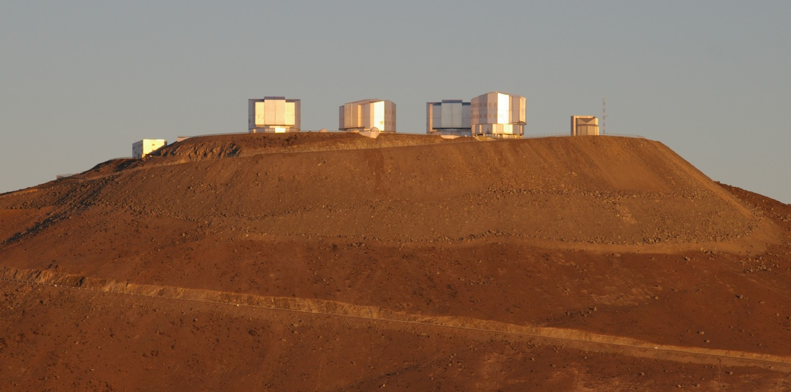 Paranal Observatory in Chile. The control building can be seen at the lower left. The domes of Antu, Kueyen, Melipal and Yepun making up the Very Large Telescope can be seen on top. To the right is the VST.